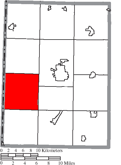 Map of the municipal and township boundaries of Preble County, Ohio, United States, as of the 2000 census, with the location of Dixon Township highlighted. Township borders are shown only in unincorporated areas in order to differentiate incorporated and unincorporated areas more clearly.